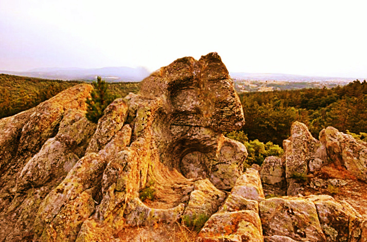 Solar_shrine_Paleokastro_BG_1